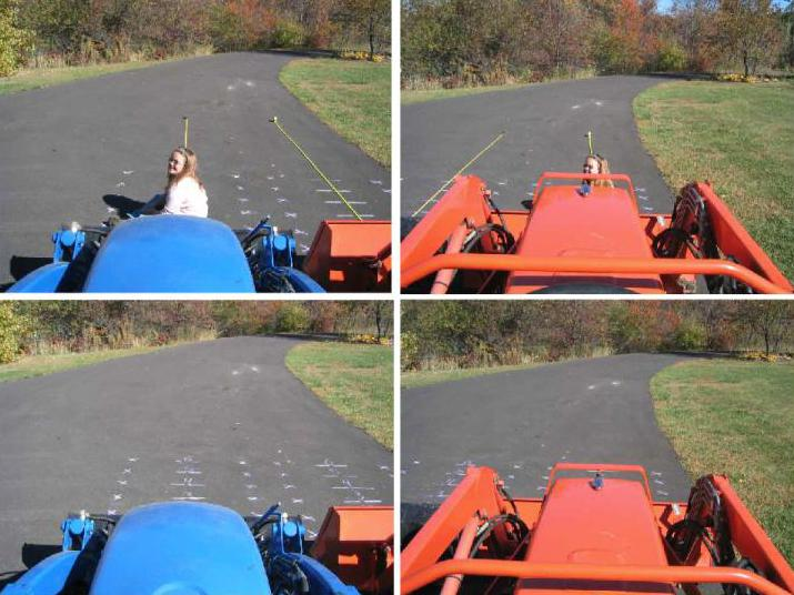 A drivers seat view showing the visibility over the hood and loader arms of two different compact tractors. The Kubota B2910 tractor on the right uses traditional loader arms while the New Holland TC24D tractor on the left uses low profile curved loader arms.